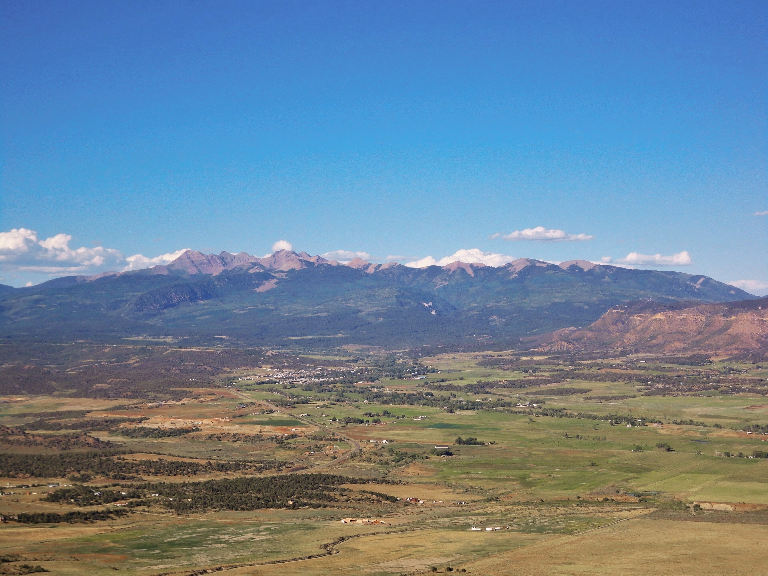 A picture of the La Plata Mountains from the Mancos Valley Overlook in Mesa Verde National Park